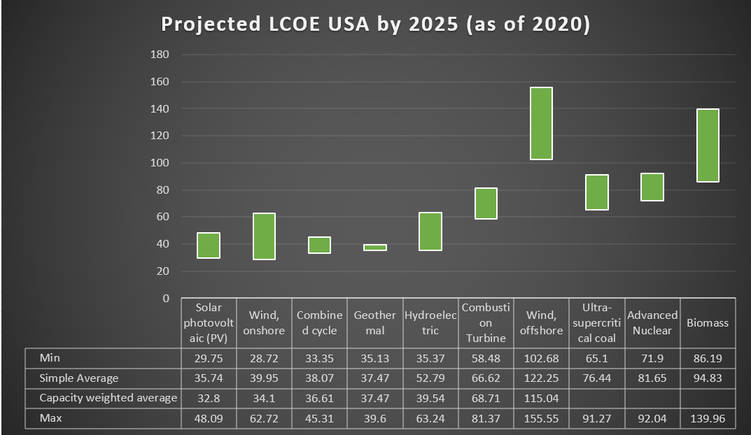 Projected-LOCE-USA-by-2025-as-of-2020-EIA-AEO. This chart is made from the table on page 8 of 2020